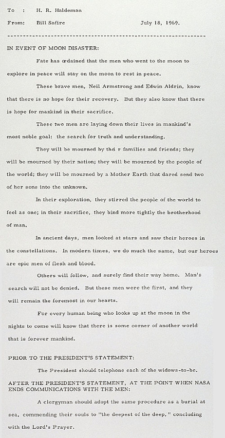 William Safire memo to H. R. Haldeman to be used in the event that Apollo 11 ended in disaster. A transacript of this memo is at wikisource.